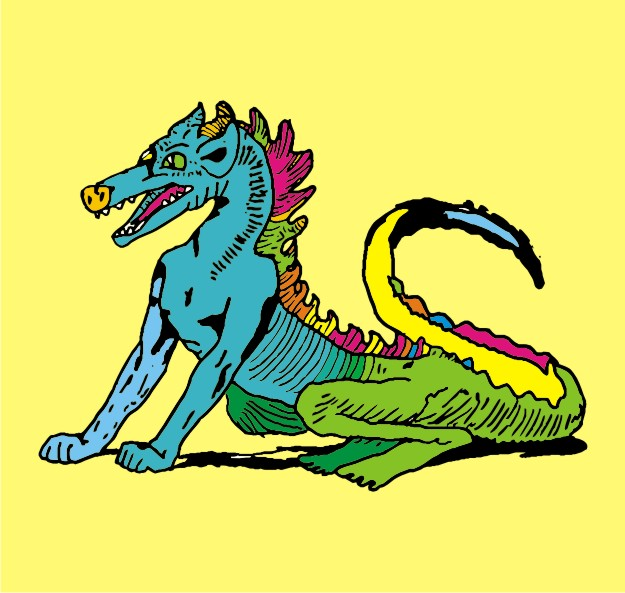 endriago